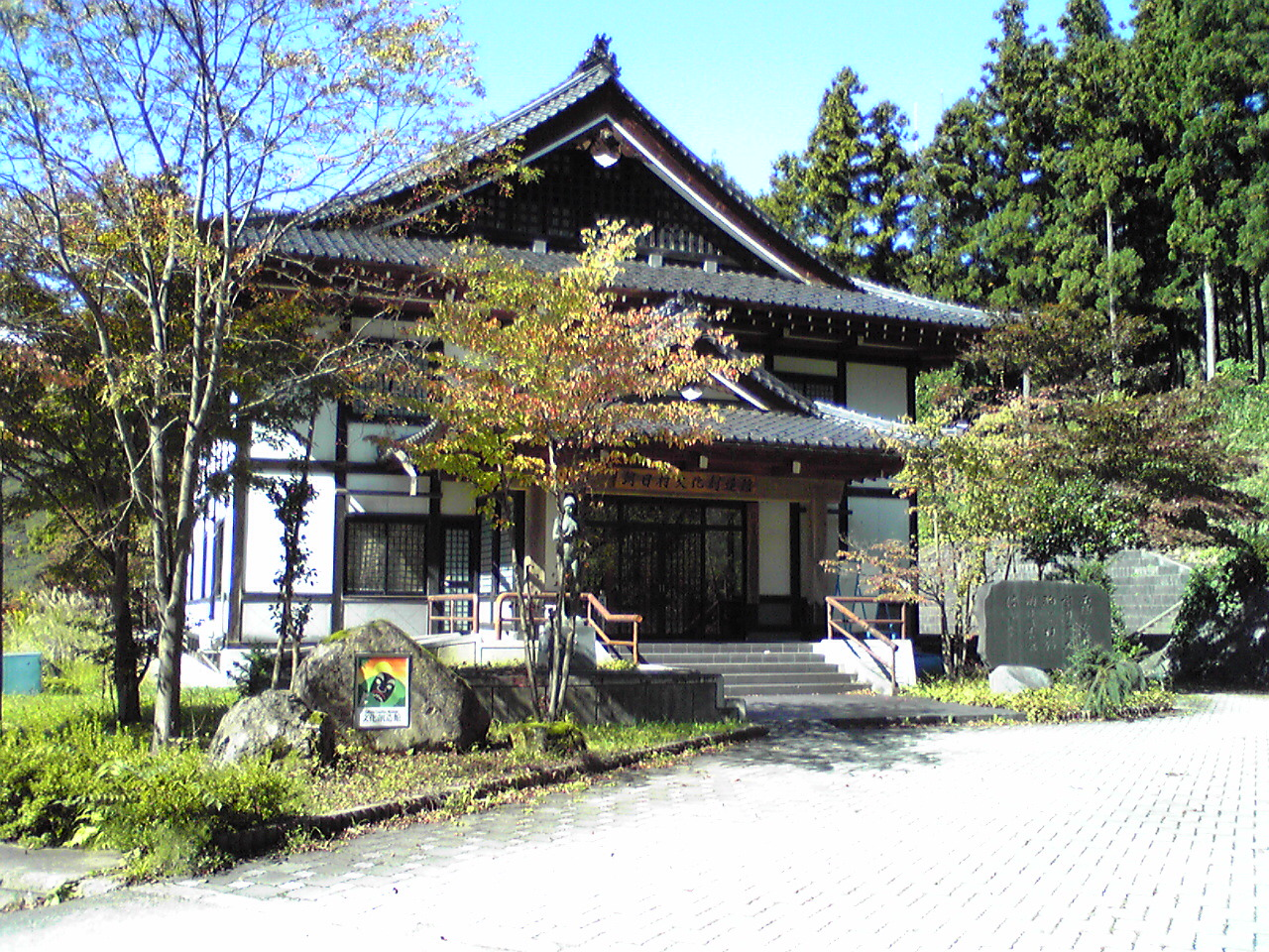 Bunka sozokan (Culture Creation Museum) at Michinoeki Gassan in Tsuruoka City, Yamagata Prefecture, Japan